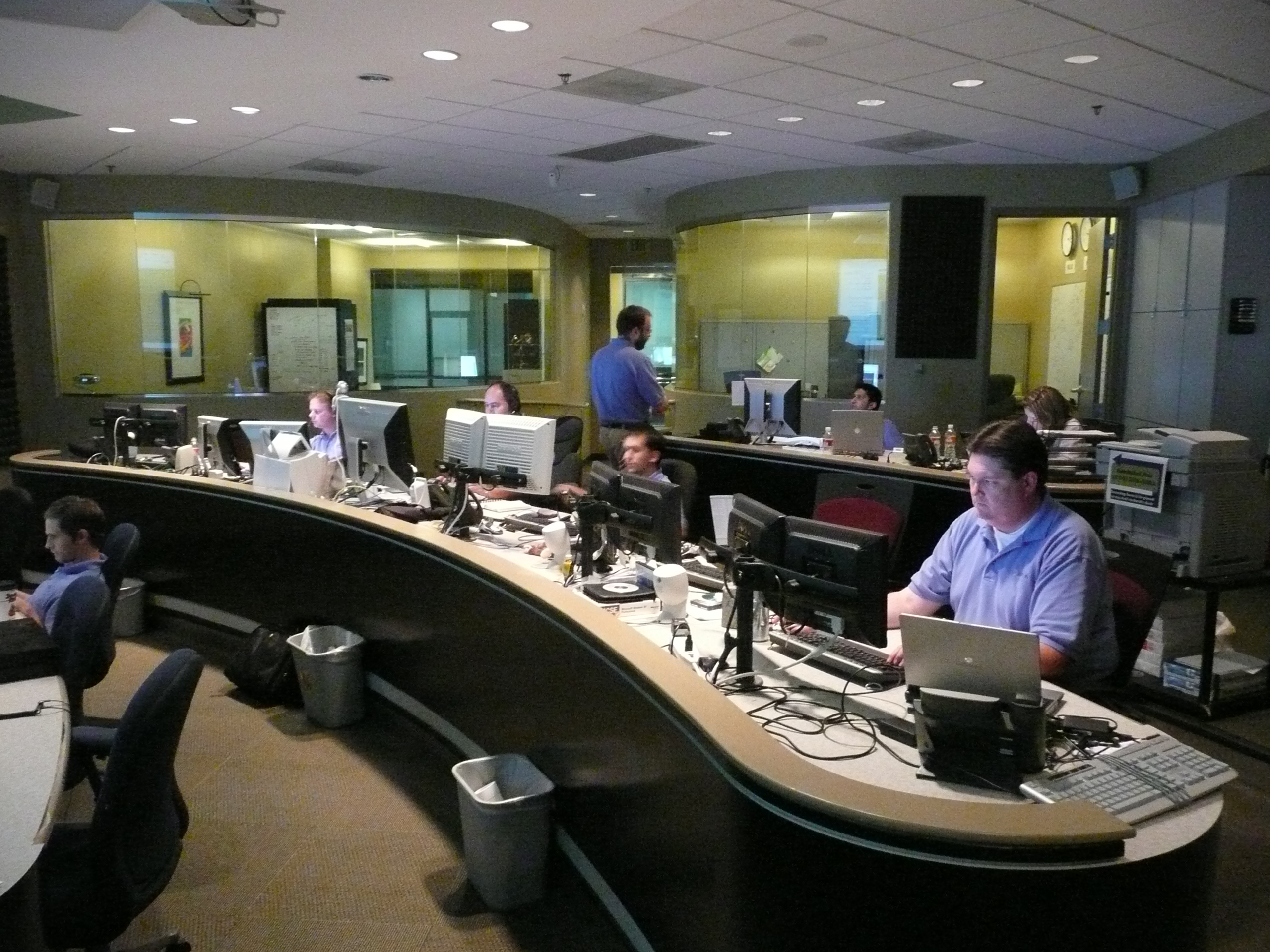 Technicians in Architel NOC. Technicians in Architel Network Operations Center.